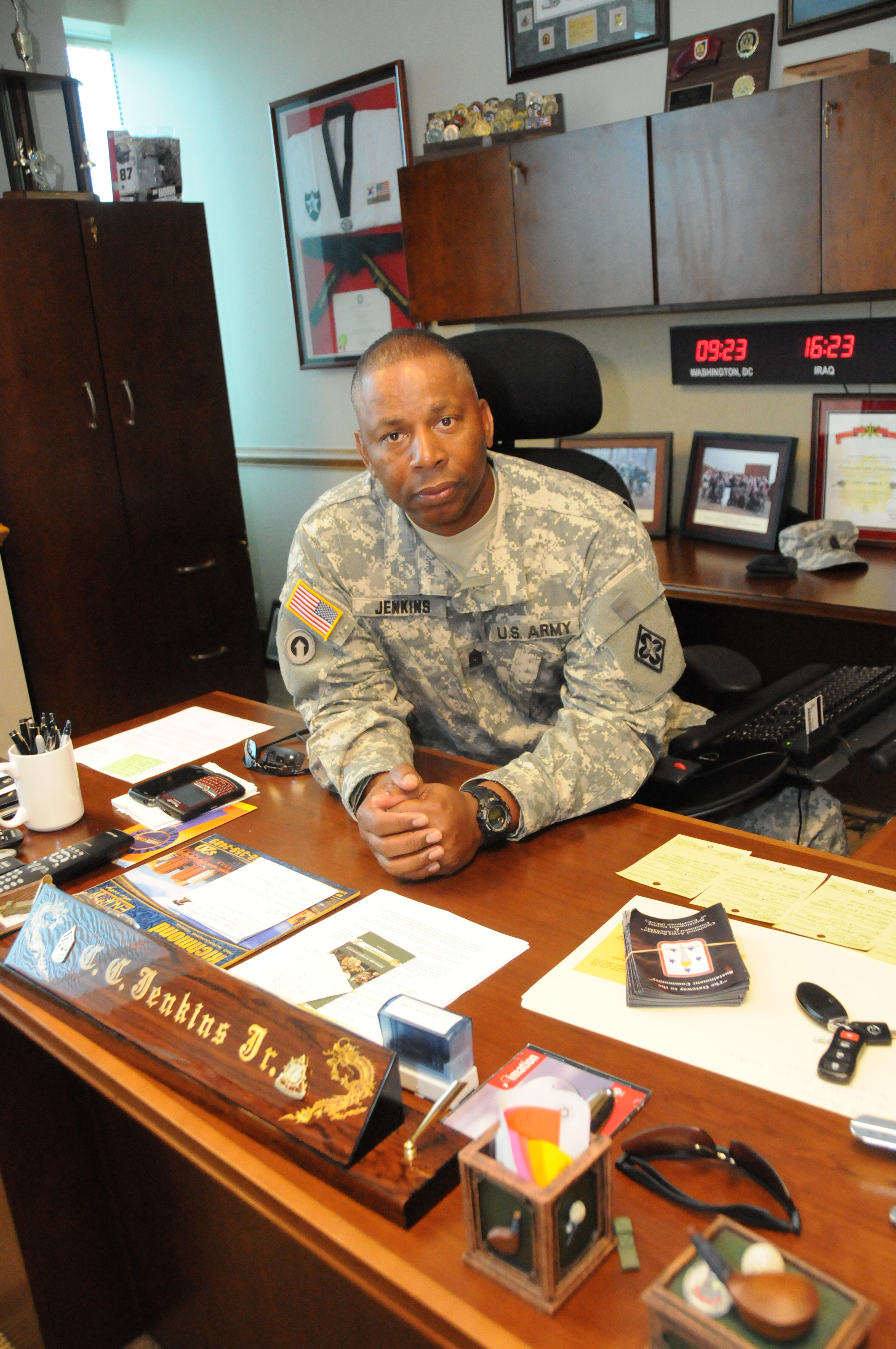 Command Sgt. Maj. C.C. Jenkins, Combined Arms Support Command, Sustainment Center of Excellence and Fort Lee, Va., command sergeant major is particularly eager to talk about NCO professional development or the process of attaining the skills and knowledge required for career progression and the means to better support the Army's mission.